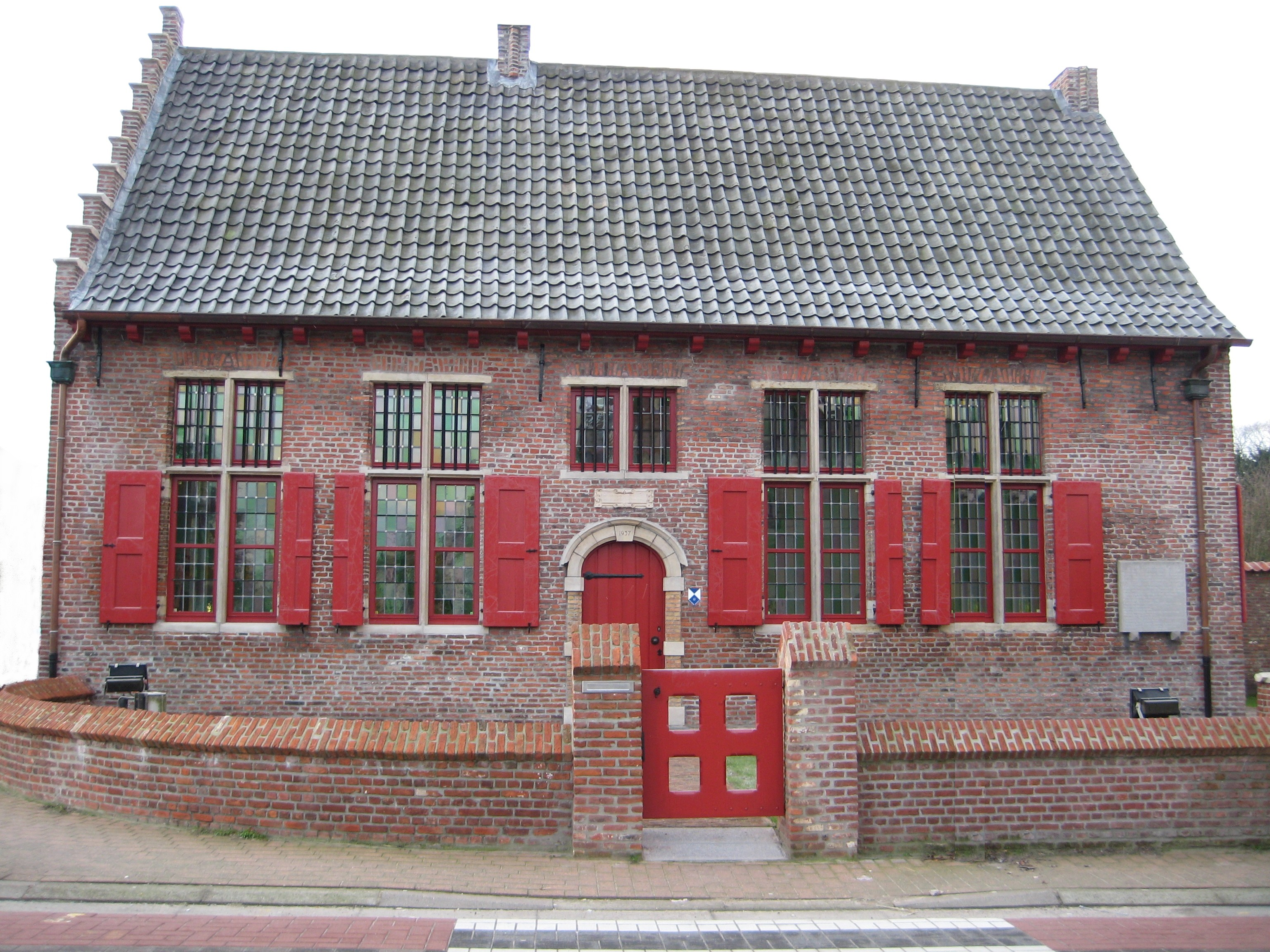 Vierschaar, old courthouse in the Belgian town Wachtebeke, north facade article